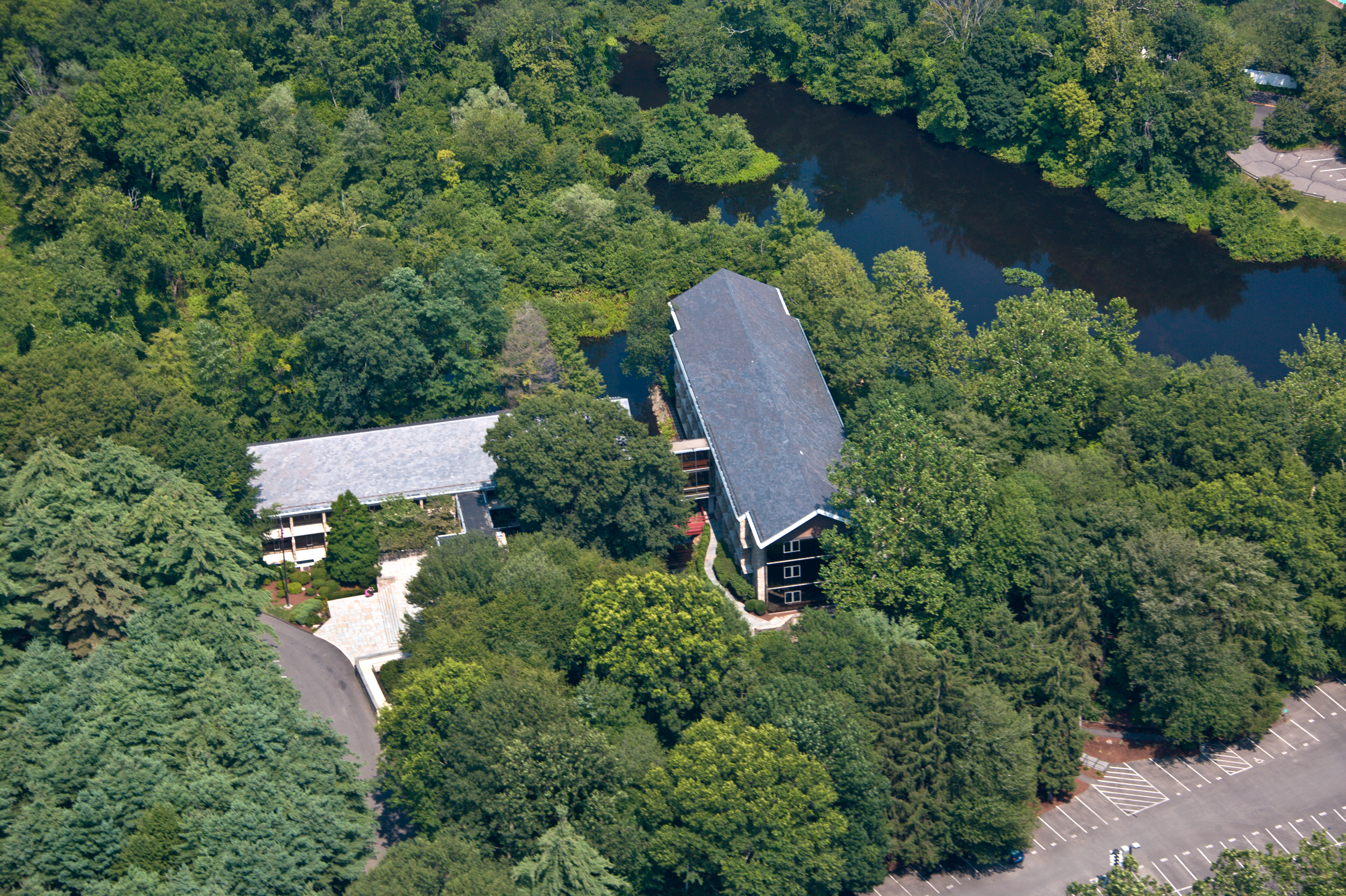 Bridgewater Associates - One Glendinning Place, Westport CT